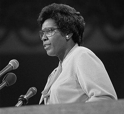 Barbara Jordan, half-length portrait, standing, facing left, giving keynote address before the 1976 Democratic National Convention in New York City